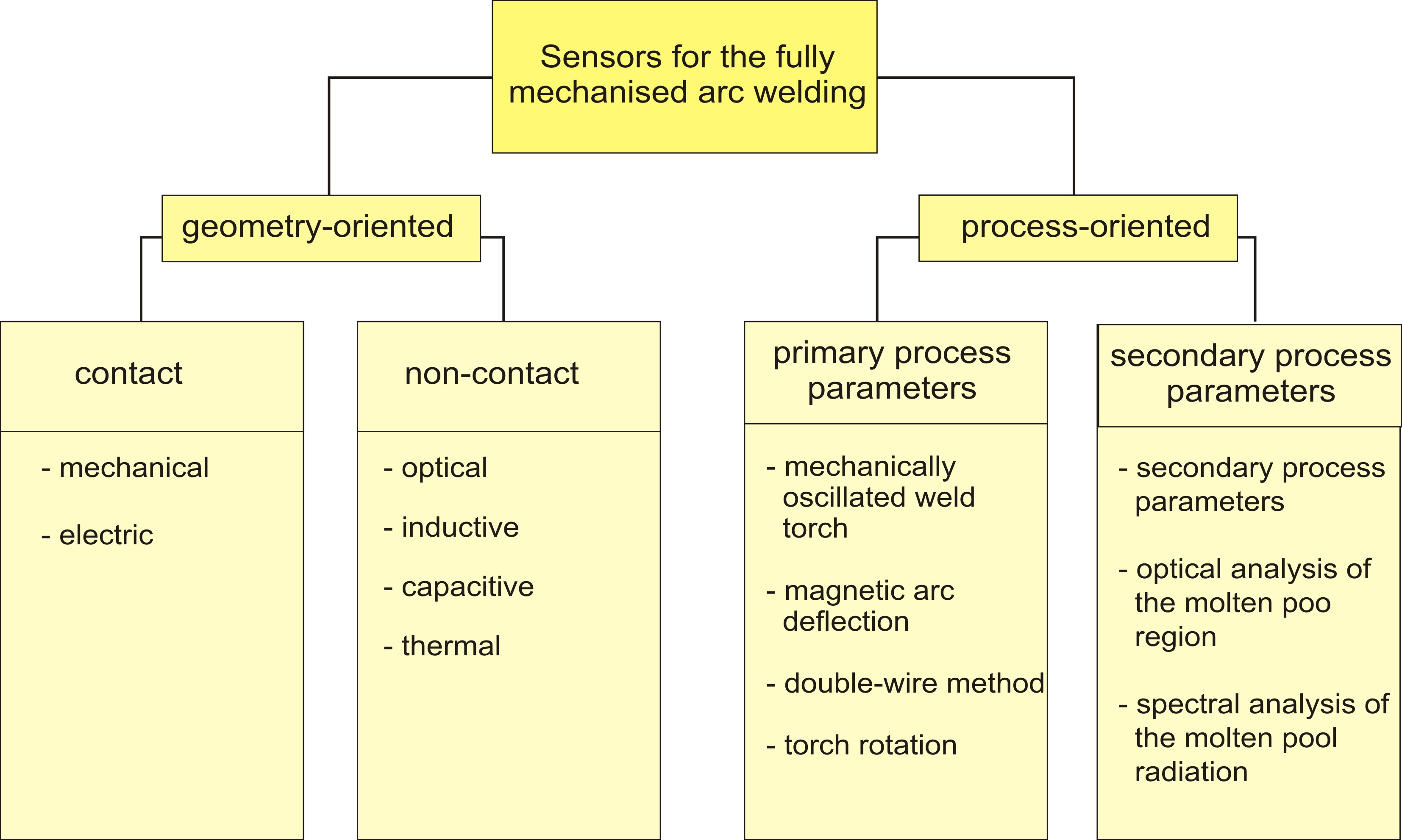 Classification of the sensor sytems